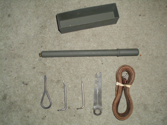 These are the tools and accessories issued to the m/104a and m/105a.